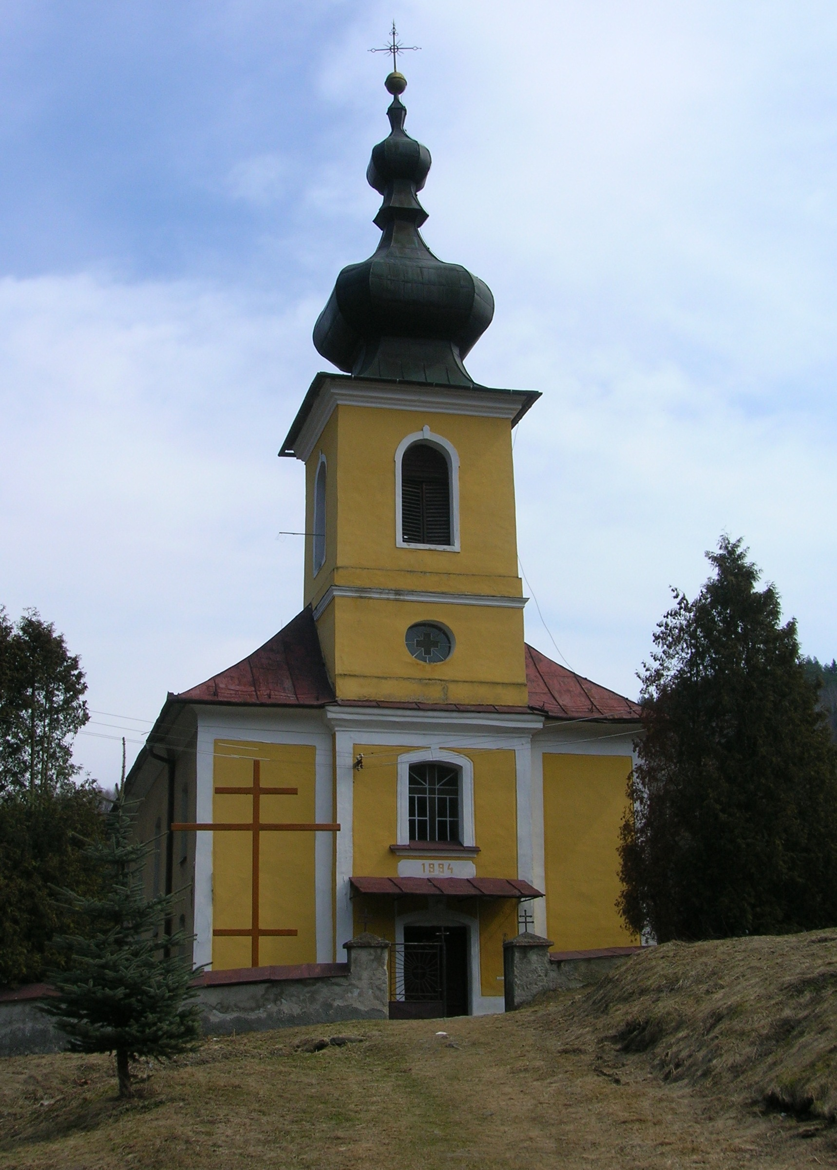 the church of Sulin, a community in East Slovakia